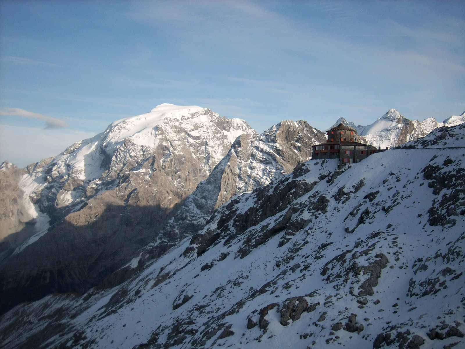 Ortler from Stilfser Joch, Italy